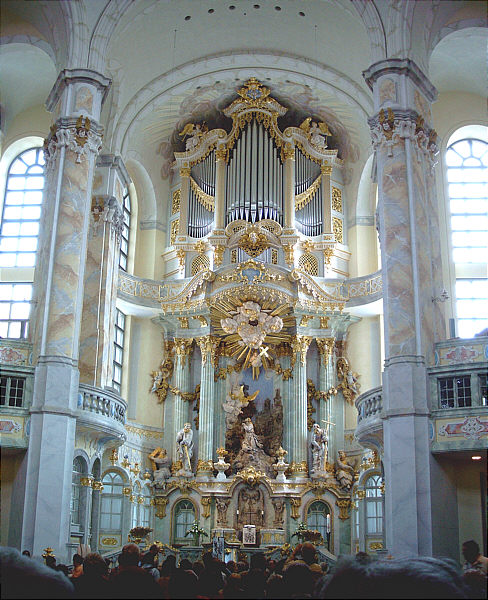 Altar of the new Frauenkirche in Dresden